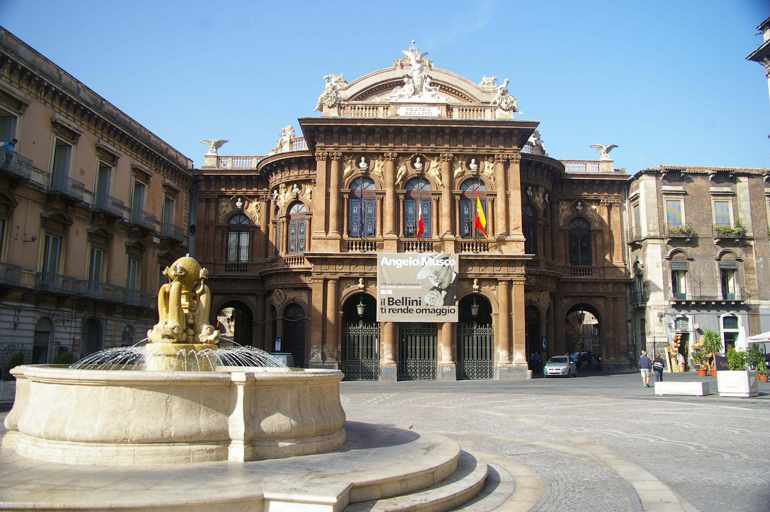 Teatro Massimo "Vincenzo Bellini", Catania, Sicily